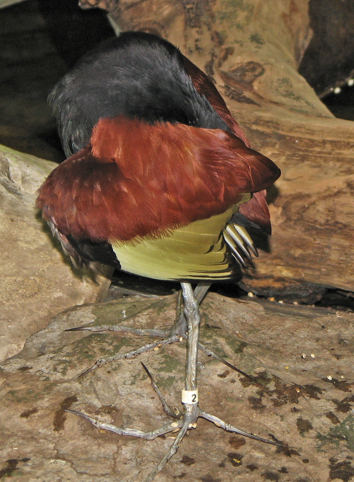 The distinctive yellow flight feathers of the Wattled Jacana (Jacana jacana) visible while the bird preens.